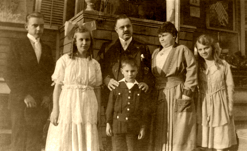 Carl Frederick Tandberg (1910-1988) and family in 1918